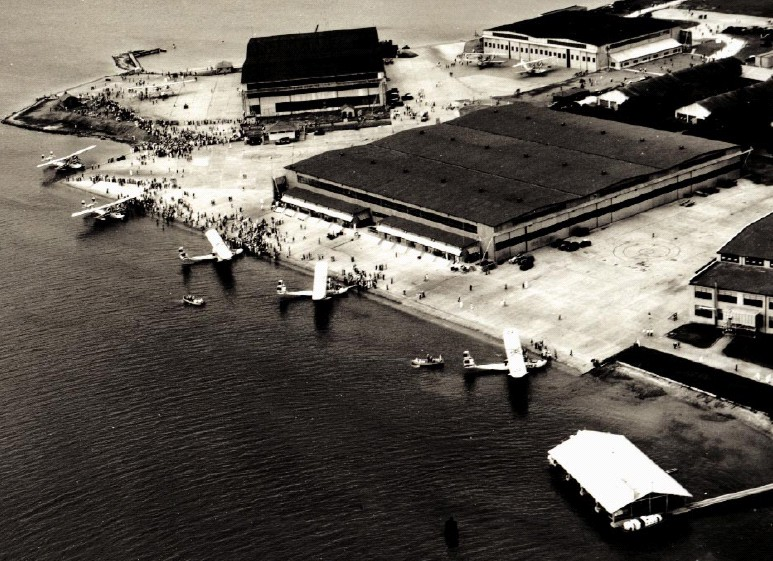 U.S. Navy Consolidated P2Y-1 of patrol squadron VP-10F at NAS Ford Island, Hawaii (USA), in January 1934. The six aircraft visible had made a record-setting non-stop flight from San Francisco, California (USA), to Pearl Harbor on 10 January 1934, covering 3.861 km in 24:34 h.